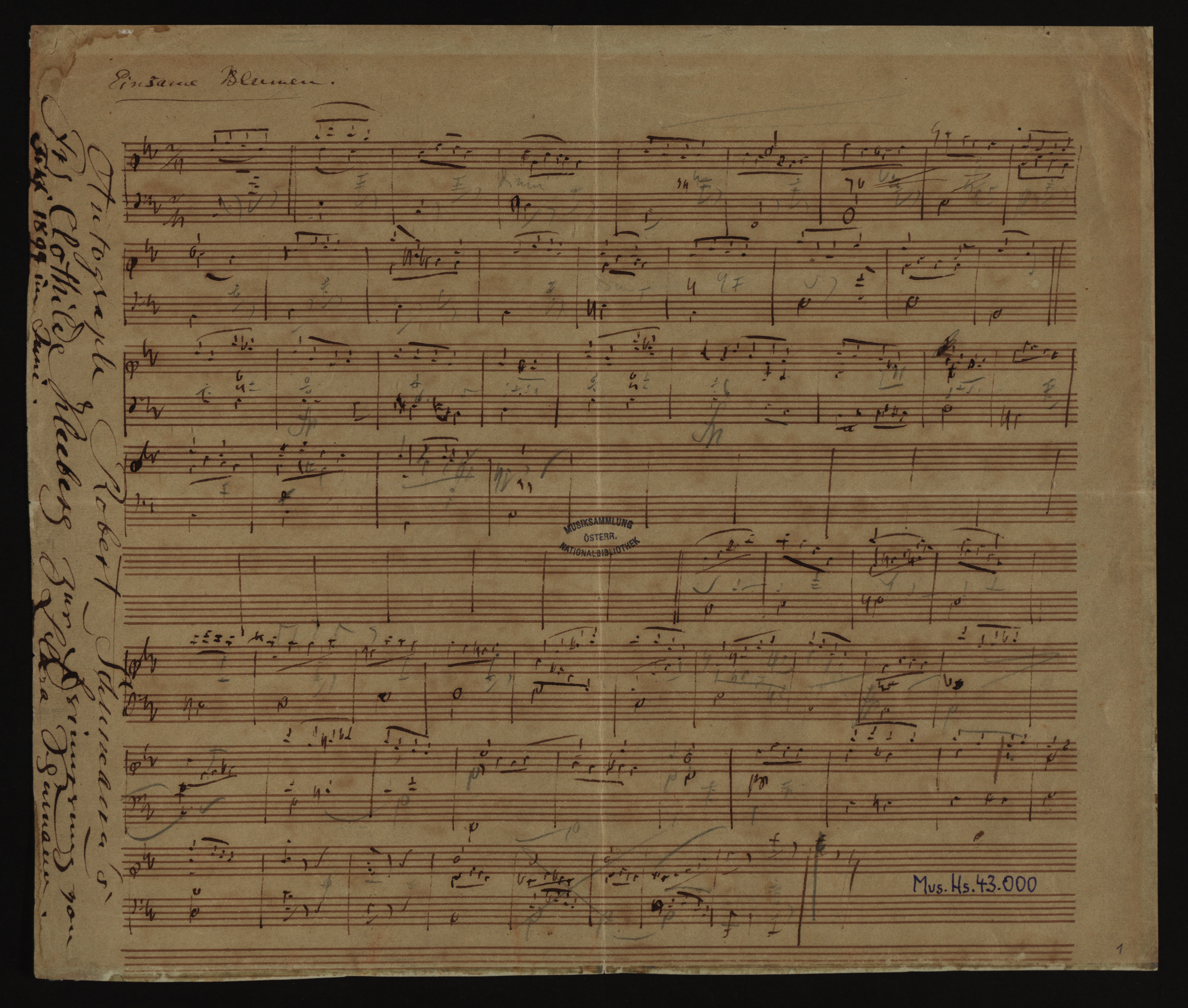 An autographic draft of Robert Schumann's "Einsame Blumen" - Waldszenen Op. 82, No. 3.